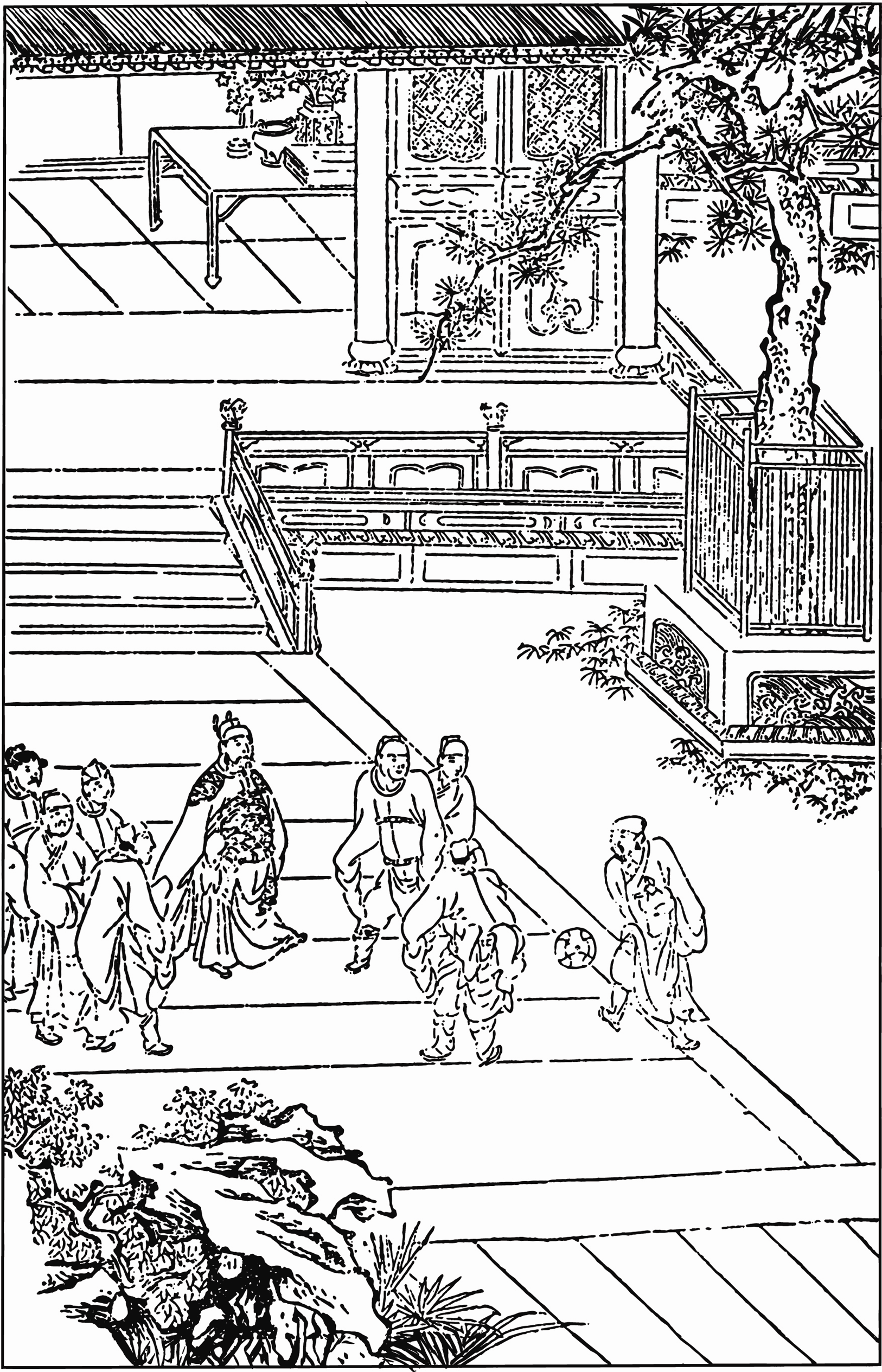 Illustration of ancient Chinese book “Outlaws of the Marsh” (This image depicts servants of a prefect playing a game of football, or Cuju)